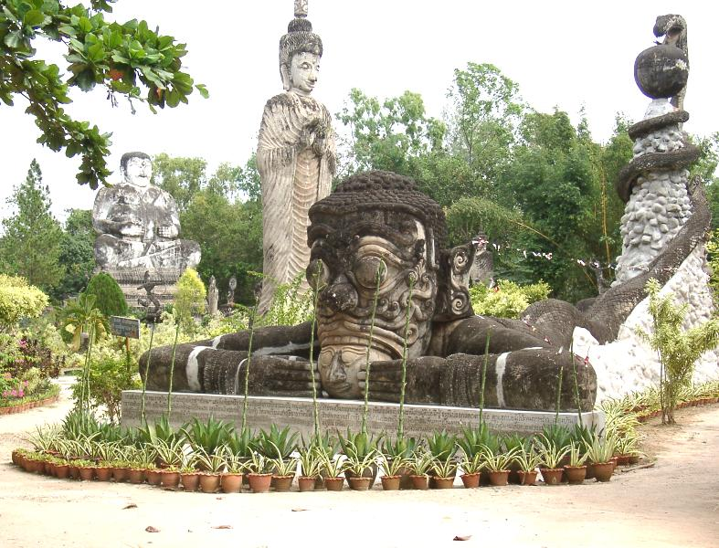 Sculpture in Sala Keoku near Nong Khai, northeastern Thailand